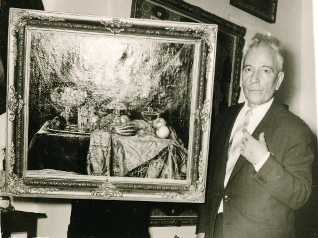 Grigor Vahramian Gasparbeg besides his painting: Still Life